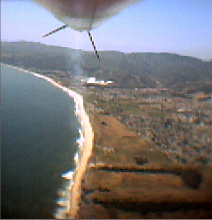 Author: jurvetson URL: Description: Oracle model rocket at apogee. Licensing